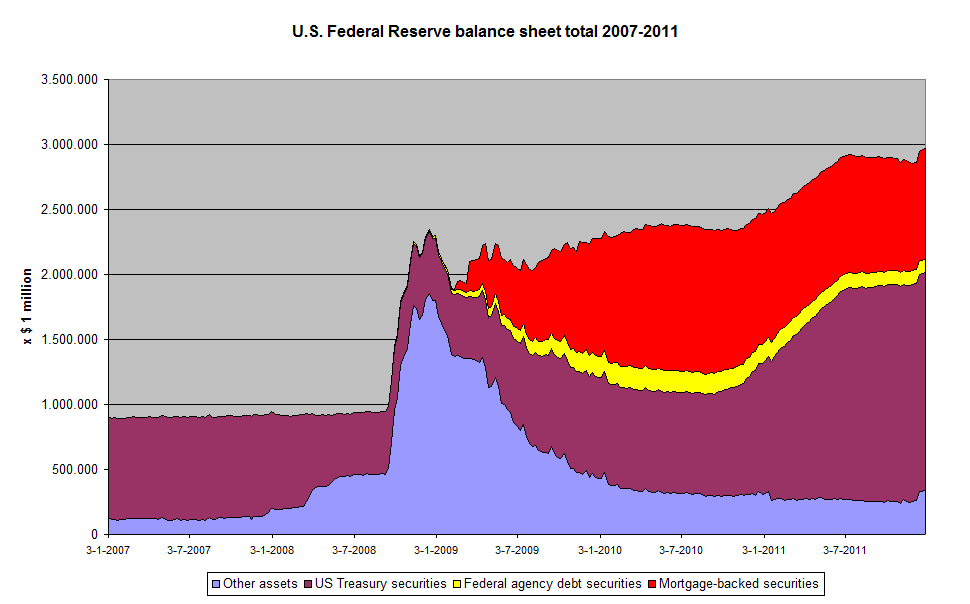 Development of balance sheet total of U.S. Federal Reserve from 2007 to end 2011. This is a truncated version of an existing graph for use in Kredietcrisis on :nl which ends in end 2011.